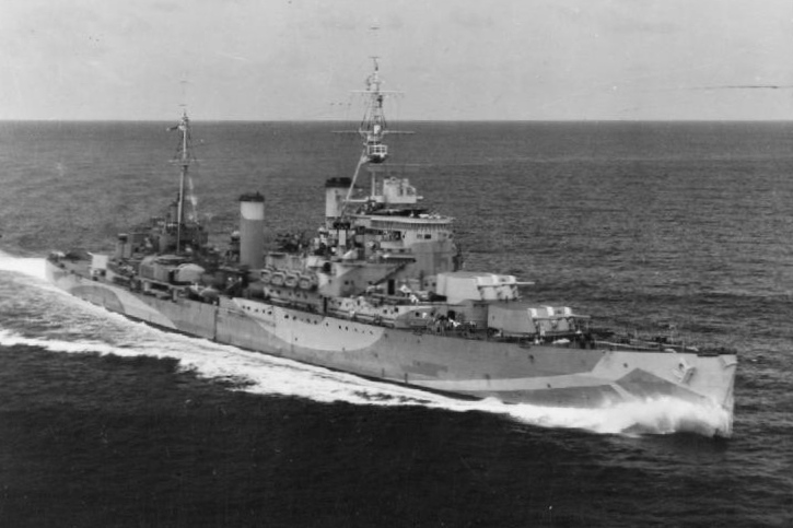 British light cruiser HMS KENYA underway at sea.